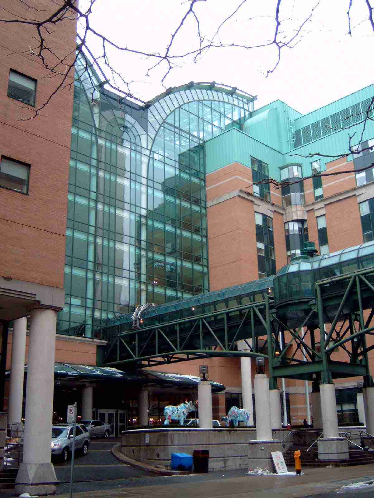 Toronto's Hospital for Sick Children - a view of the atrium (the expansion completed in 1993) created by Dhodges